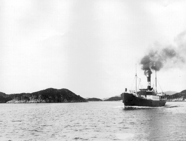 DS Stord